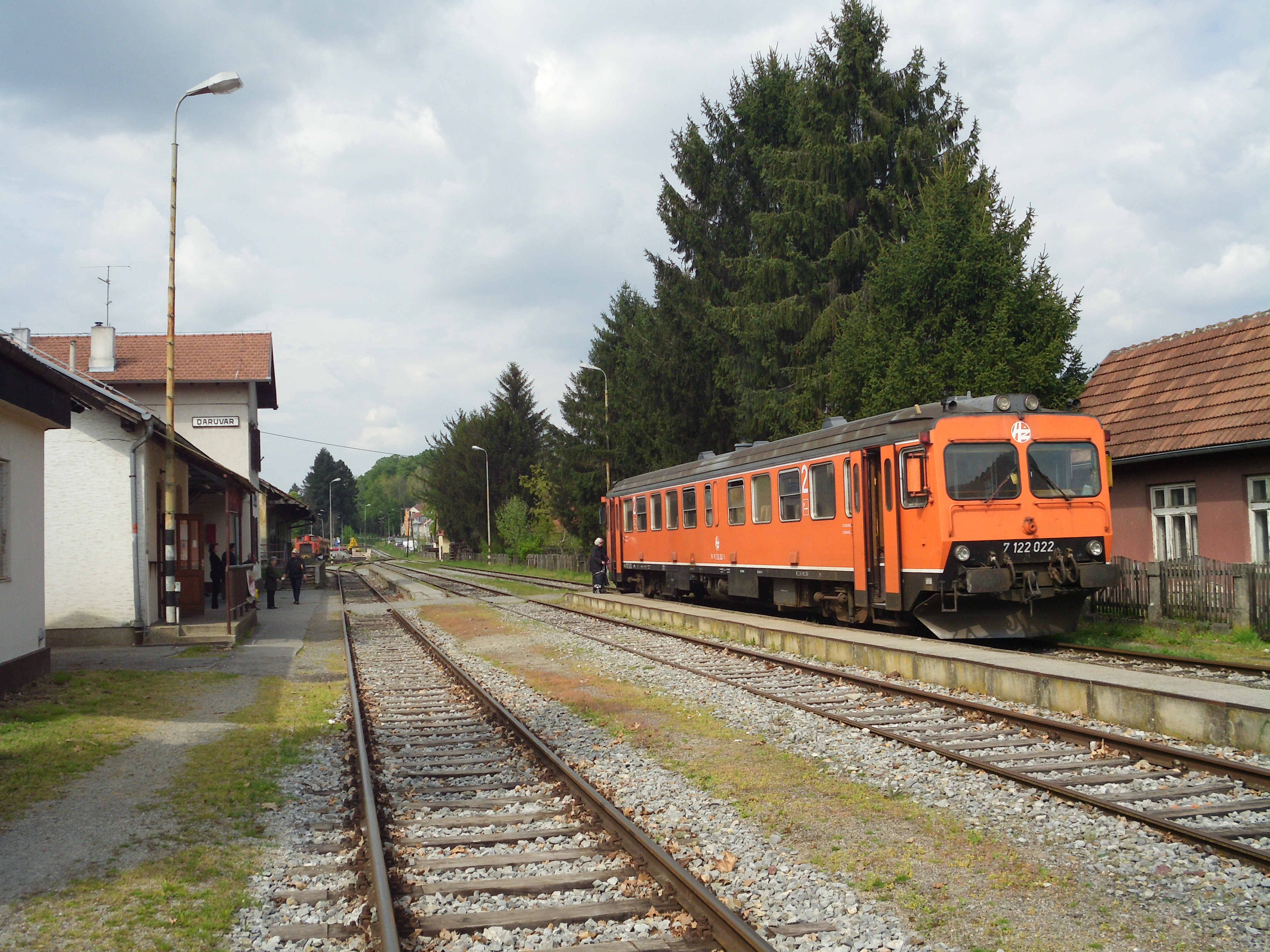 Railcar at a train station in Daruvar, Croatia.